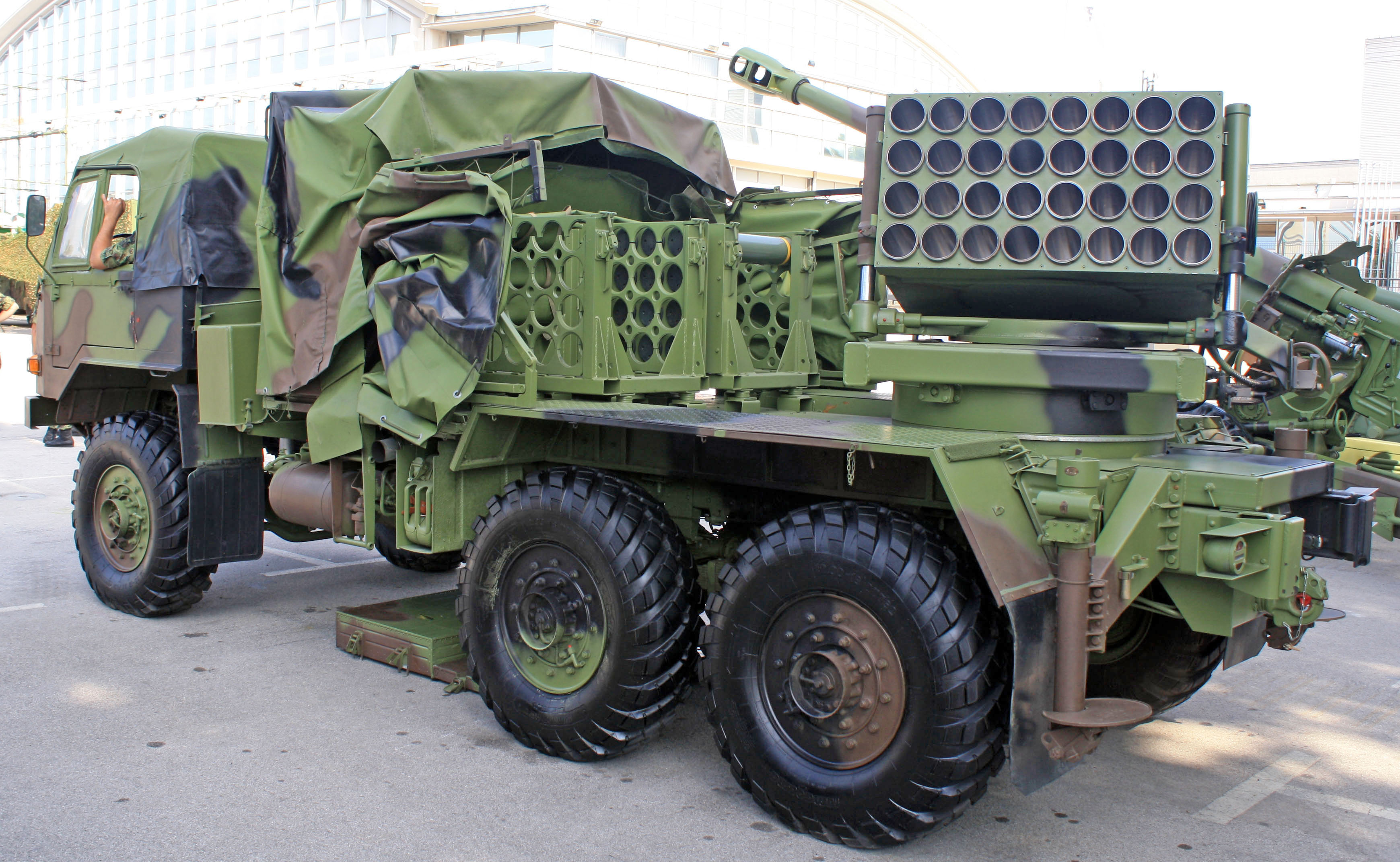 M94 Plamen S 128mm multiple rocket launcher of Serbian Army on display at "Partner 2013" military fair.